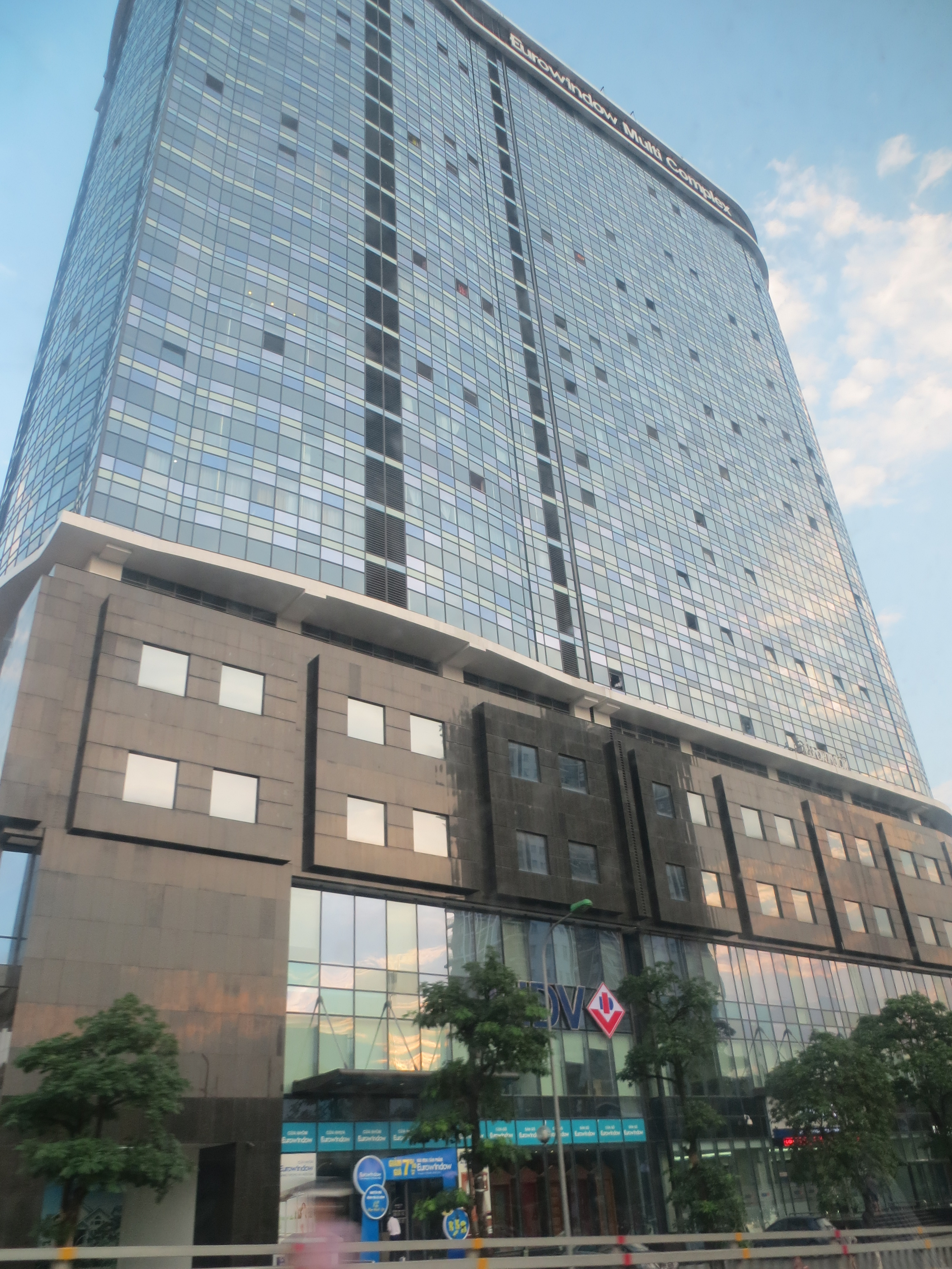 Eurowindow Multi Complex on Trần Duy Hưng Street.